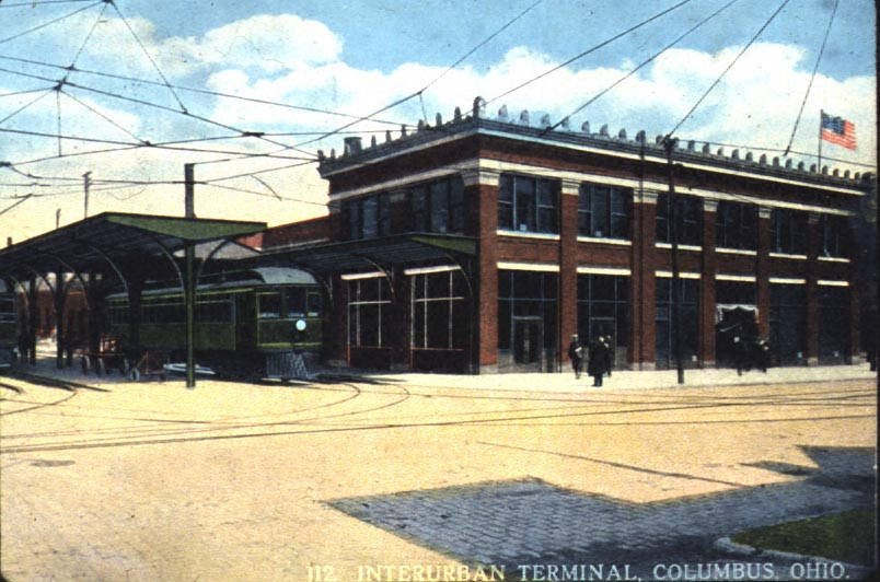 "Columbus Interurban Terminal opened January 6, 1912 and closed October 29, 1938. It later became an A&P Food Store before its final demolition in 1967. Terminal was demolished 12/21/1967 to build a new Greyhound Bus Terminal."